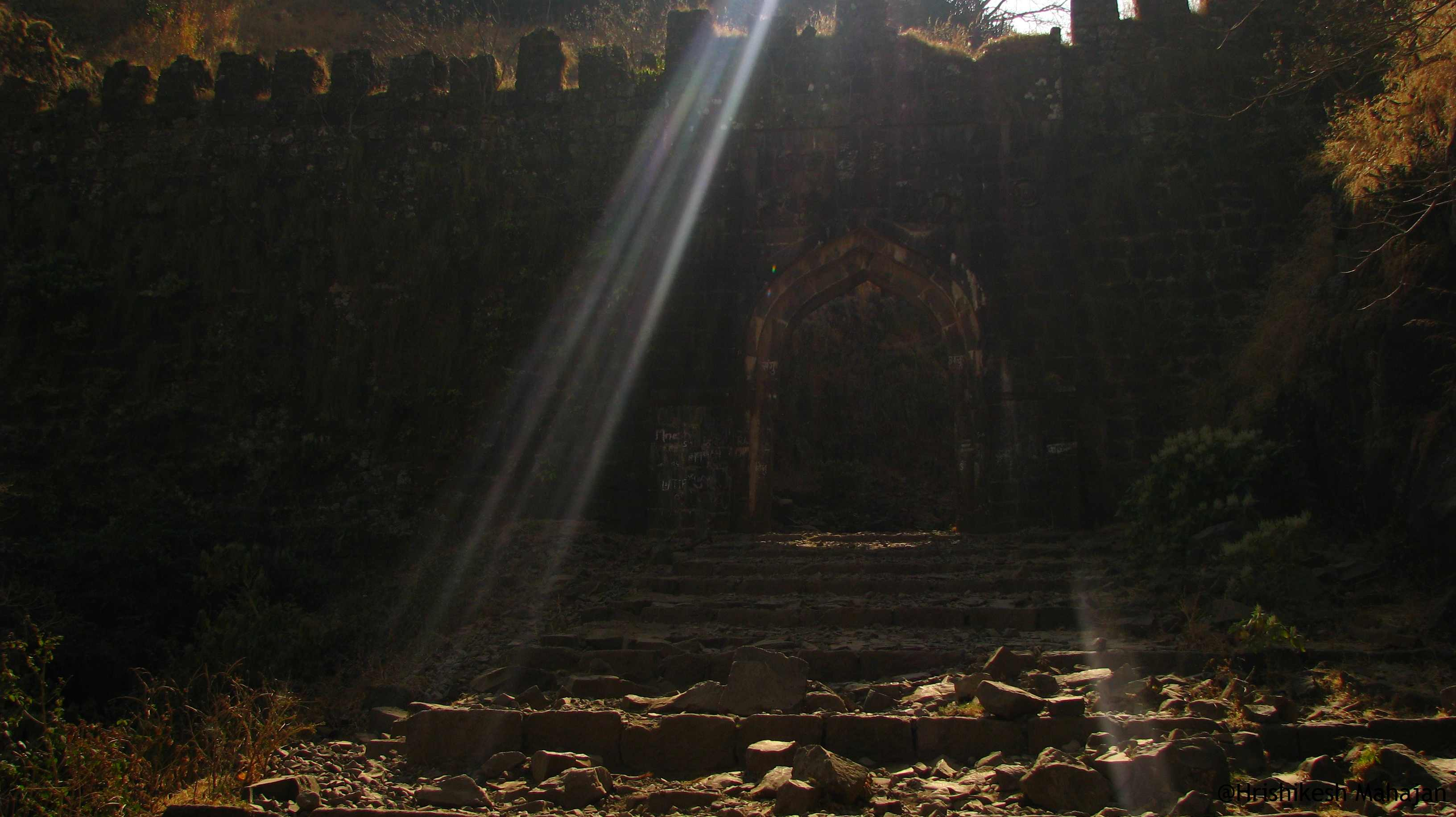 Gavilgad fort entrance, Maharashtra, India